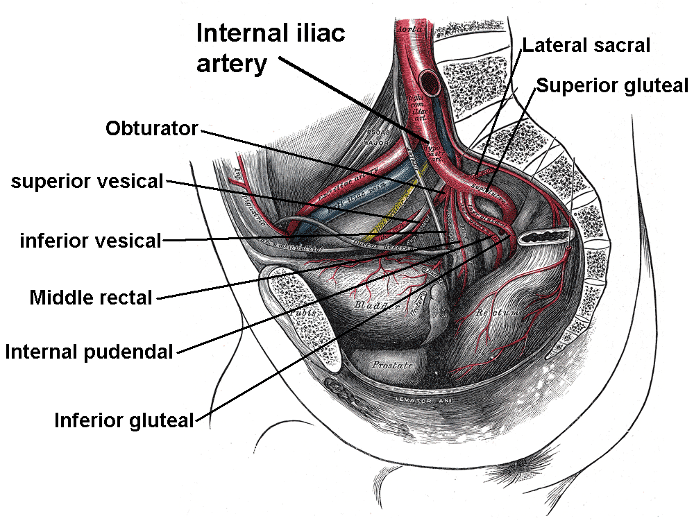 The arteries of the pelvis. Right side (distal from spectator).